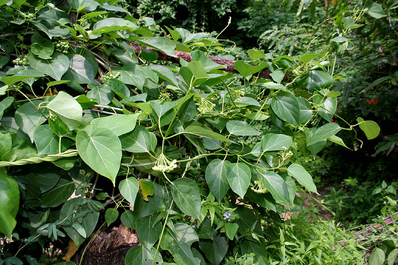 Dregea volubilis (Linn. f.) Benth. ex Hook. f. (syn. Wattakaka volubilis (Linn. f.) Stapf in Curtis, Asclepias volubilis Linn. f., Dregea formosana, Marsdenia volubilis (Linn. f.) Cooke) - Sneeze Wort, Cotton milk plant, Green milkweed climber, Green wax flower, Sneezing silk • Hindi: अकड़ बेल akad bel, हरणडोडी harandodi, नकछिकनी nak-chikni • Marathi: हरणदोडी harandodi, नखसिकणी nakhasikani • Tamil: கொடிப்பாலை koti-p-palai • Malayalam: velipparuthi • Telugu: దూదిపాలతీగ dudipalatiga • Kannada: ದುಗ್ಧಿವೆ dugdhive • Bengali: tita kunga • Oriya: dudghika • Assamese: খমল লতা Khamal lata • Gujarati: માલતી malati • Sanskrit: हेमजिवन्ती hemajivanti - in Hyderabad, India.